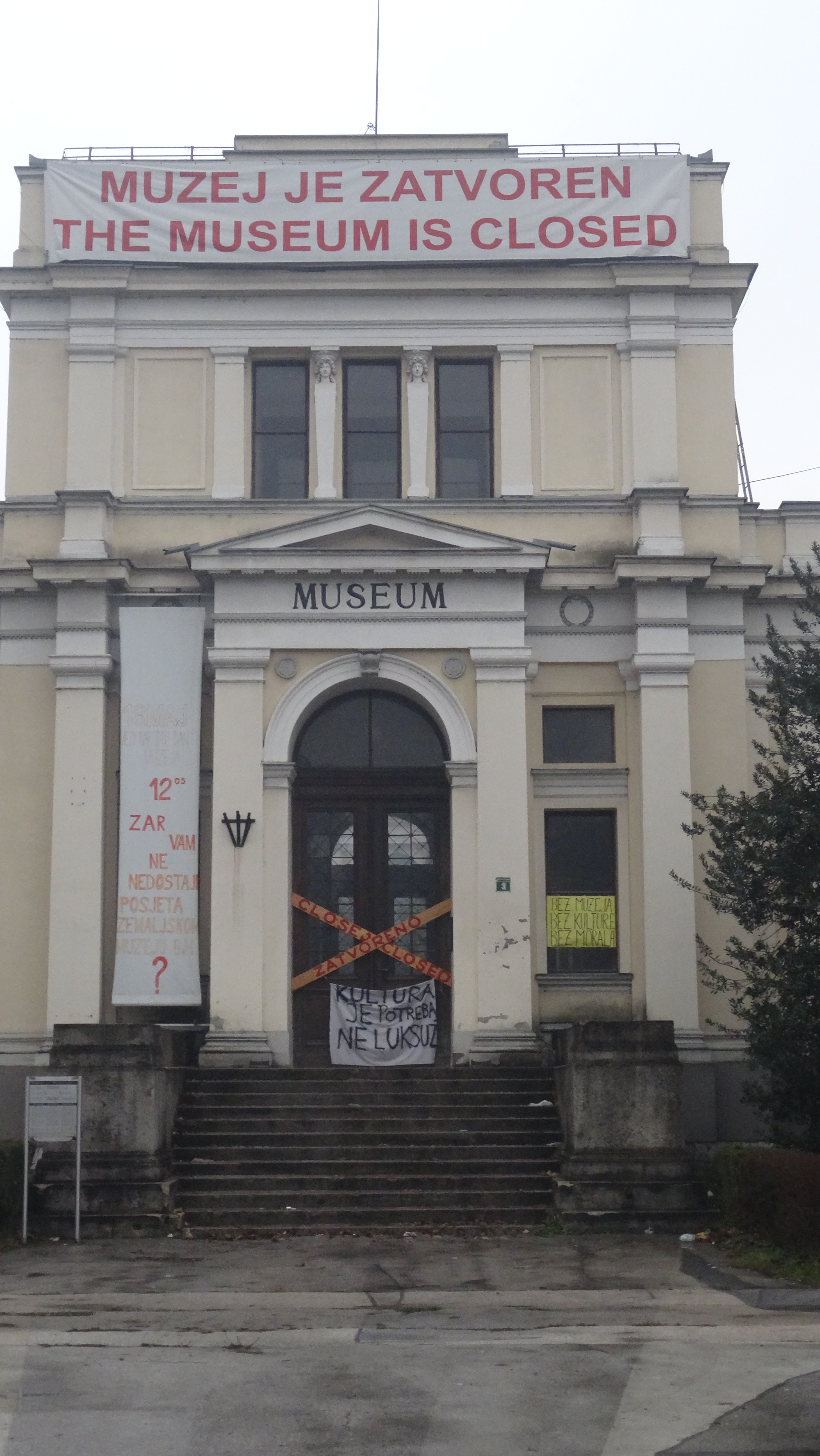 Posters by people who disagree with the museum closing. "No museum No culture No moral"